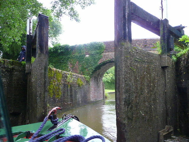 Kennet and Avon Canal east of Hungerford 6 Wire Lock; down six feet and gates opening.